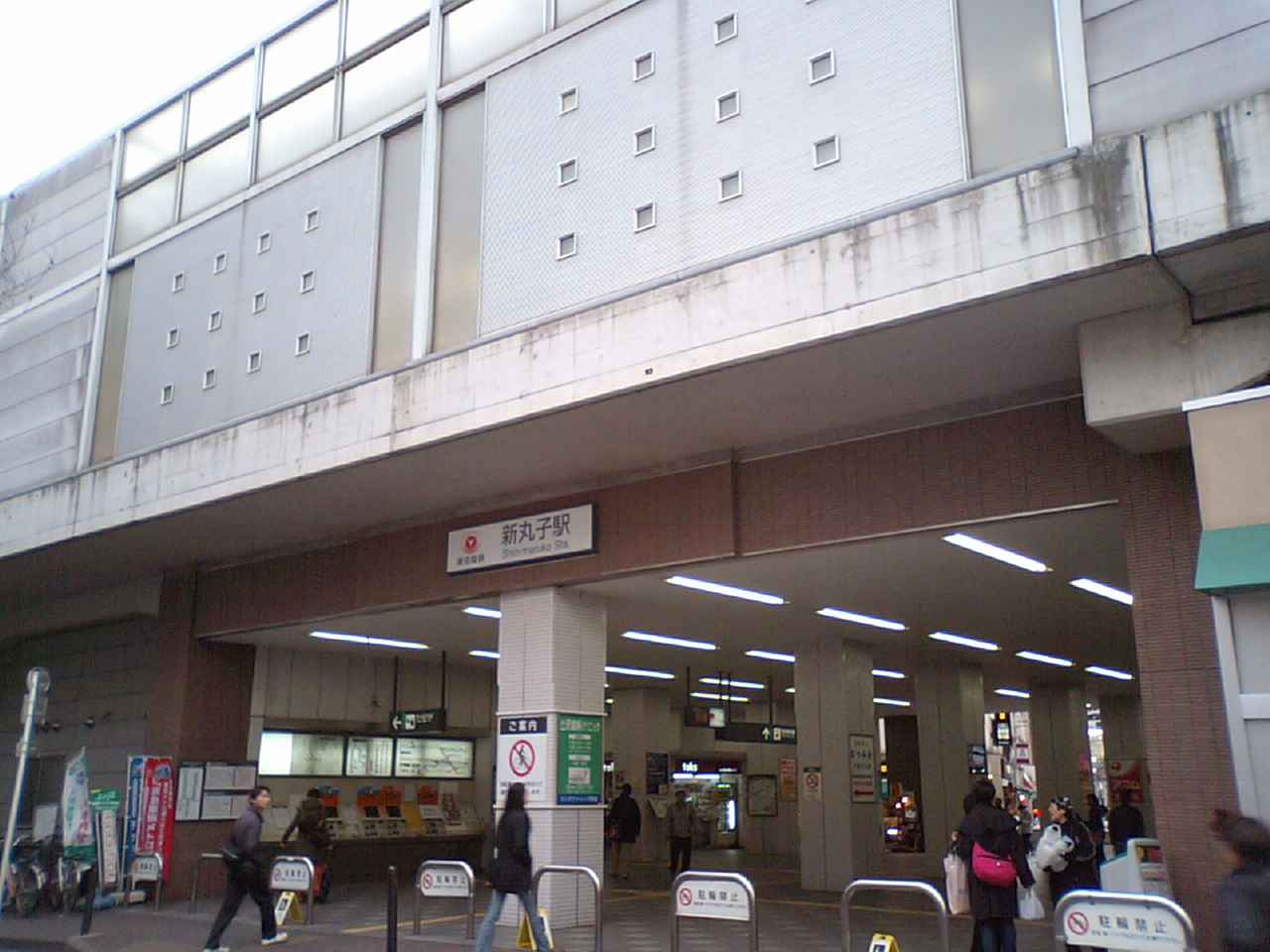 Tokyu Toyoko Line and Meguro Line Shinmaruko sta. station building.